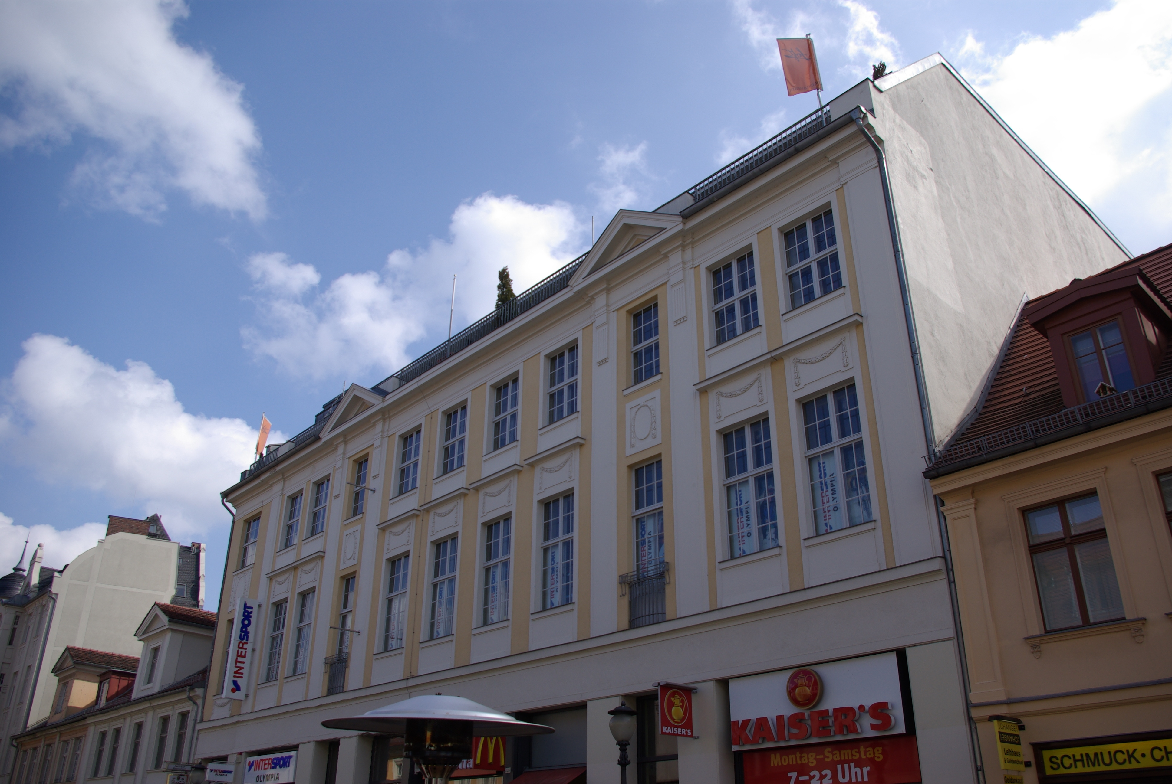 Potsdam in Germany. The house Brandenburger Straße 30 is a listed building.